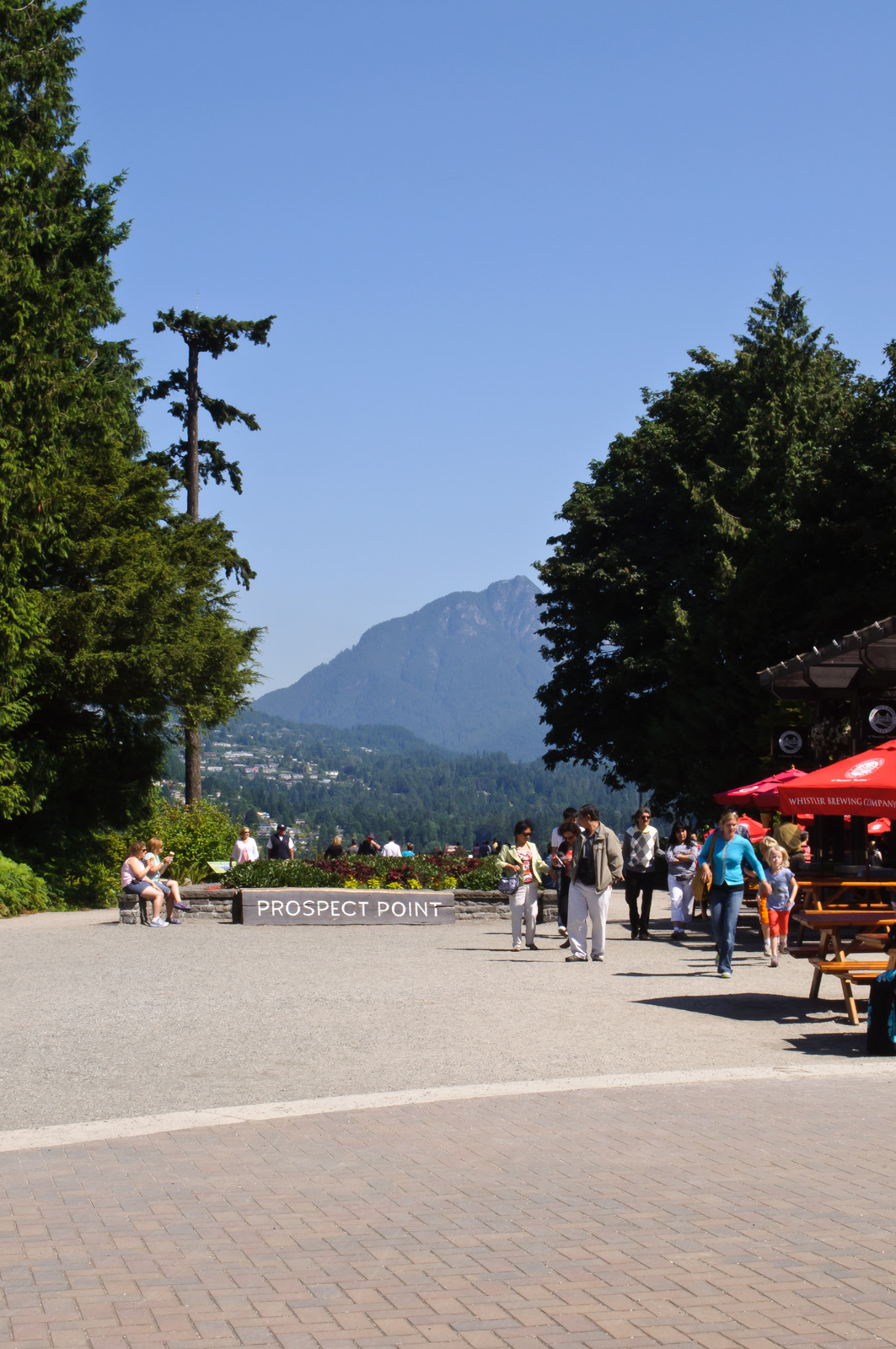 Stanley Park, located at the tip of the peninsula that is the core of Vancouver, had originally been set aside for a fort, to protect Canada's main Pacific port of Vancouver from a possible US invasion in the 19th Century. (After all, both the US and the UK were vying for the control of Vancouver, before it became part of a new Canada.) The land became the park that it is today, when the US invasion threat dissipated; today, the main US invasion here is in the form of tourism. Stanley Park is named after Lord Stanley, Canada's first Governor-General; National Hockey League's Stanley Cup is also named after it. (Sadly the Vancouver Canucks have never been able to win the Stanley Cup - 2012 saw the Canucks get cut down by none other than my Los Angeles's own Kings, who went on to win it.) A nice rest area in Stanley Park with great views of Lions Gate Bridge and North Vancouver.